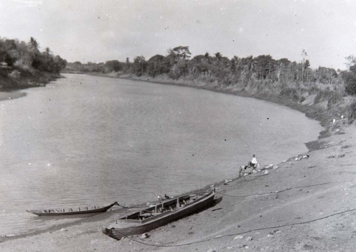 Photograph. Citarum river, Telukjambe, Karawang.